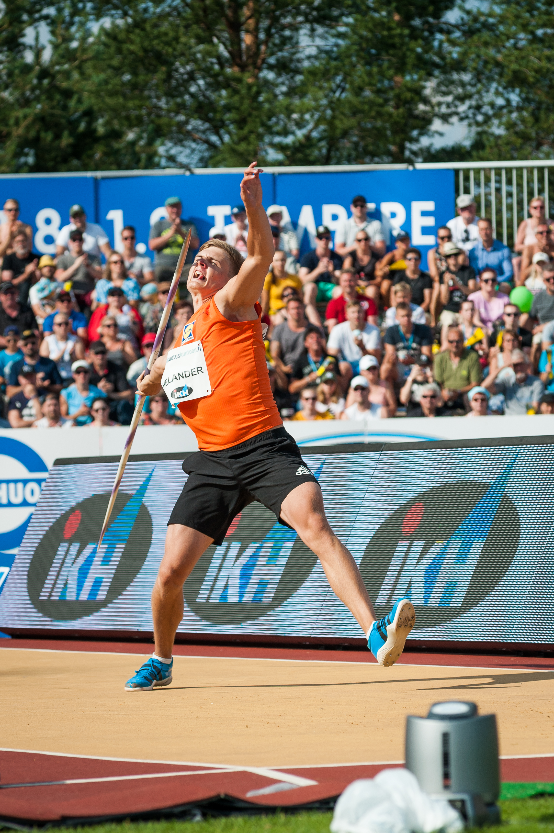 Men's javelin throw competition at the 2018 Kalevan Kisat, the Finnish championships in athletics, in Jyväskylä, Finland.